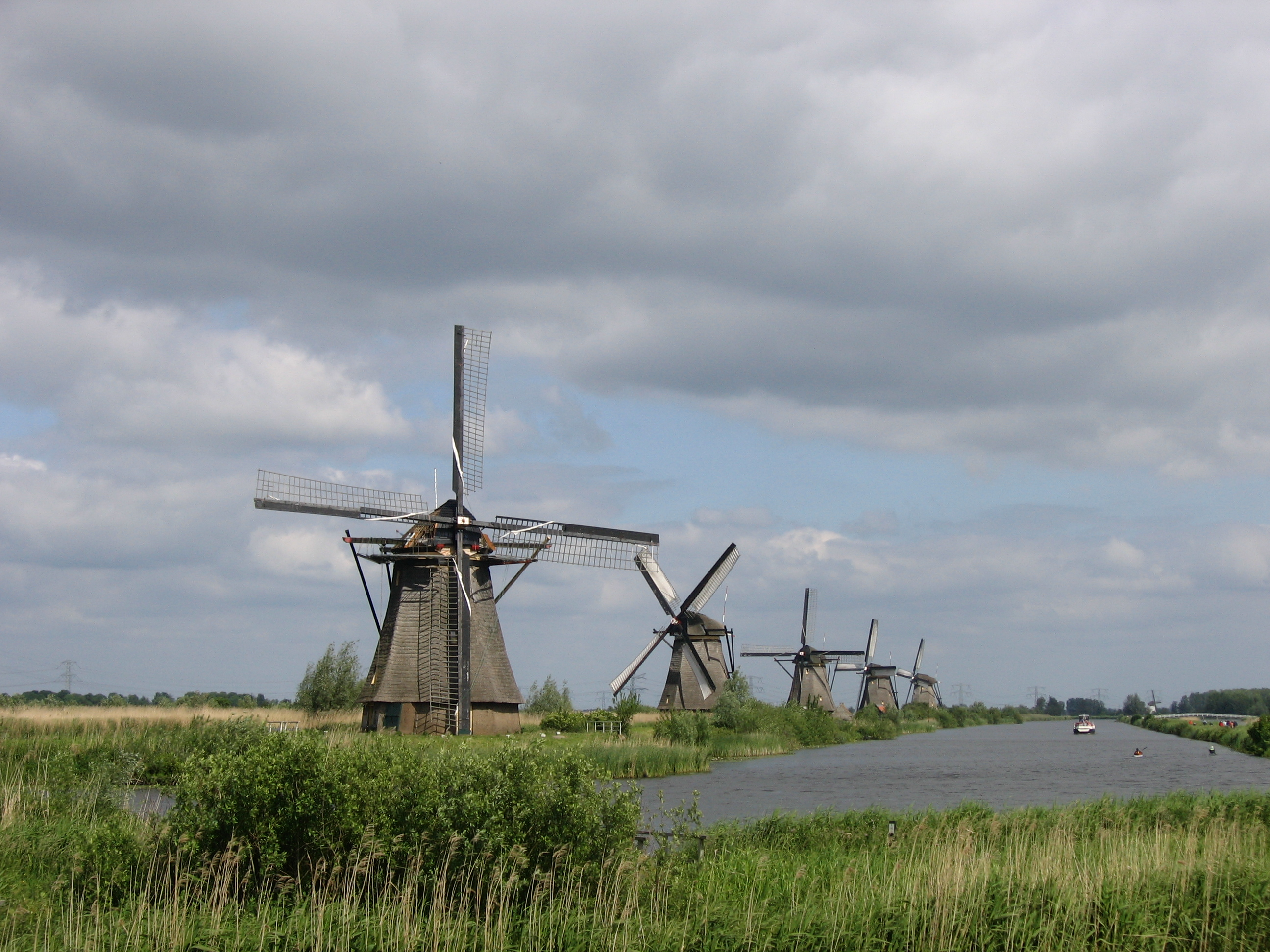 Kinderdijk in Nederland.